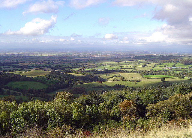 Hambleton Hills Views. Views west over The Vale of Mowbray with the Yorkshire Dales on the horizon.